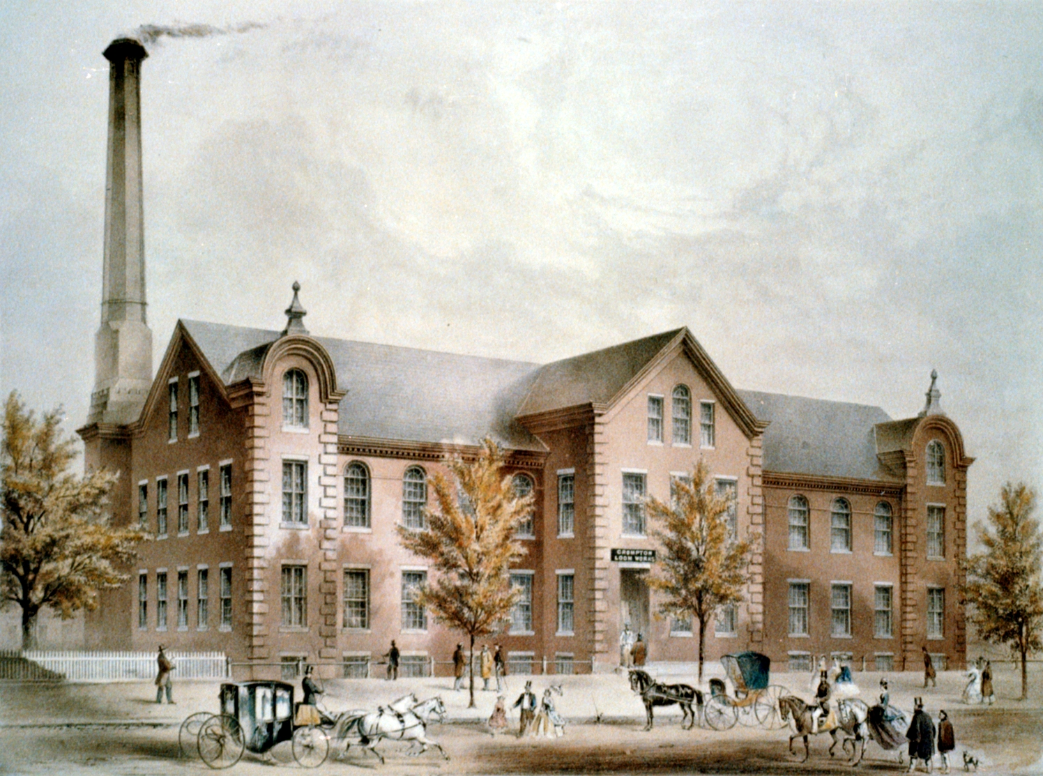 Crompton Loom Works, National Register of Historic Places, Worcester, Massachusetts, USA. Caption: "Crompton Loom Works, Green Street, Worcester, Mass. George Crompton, proprietor."